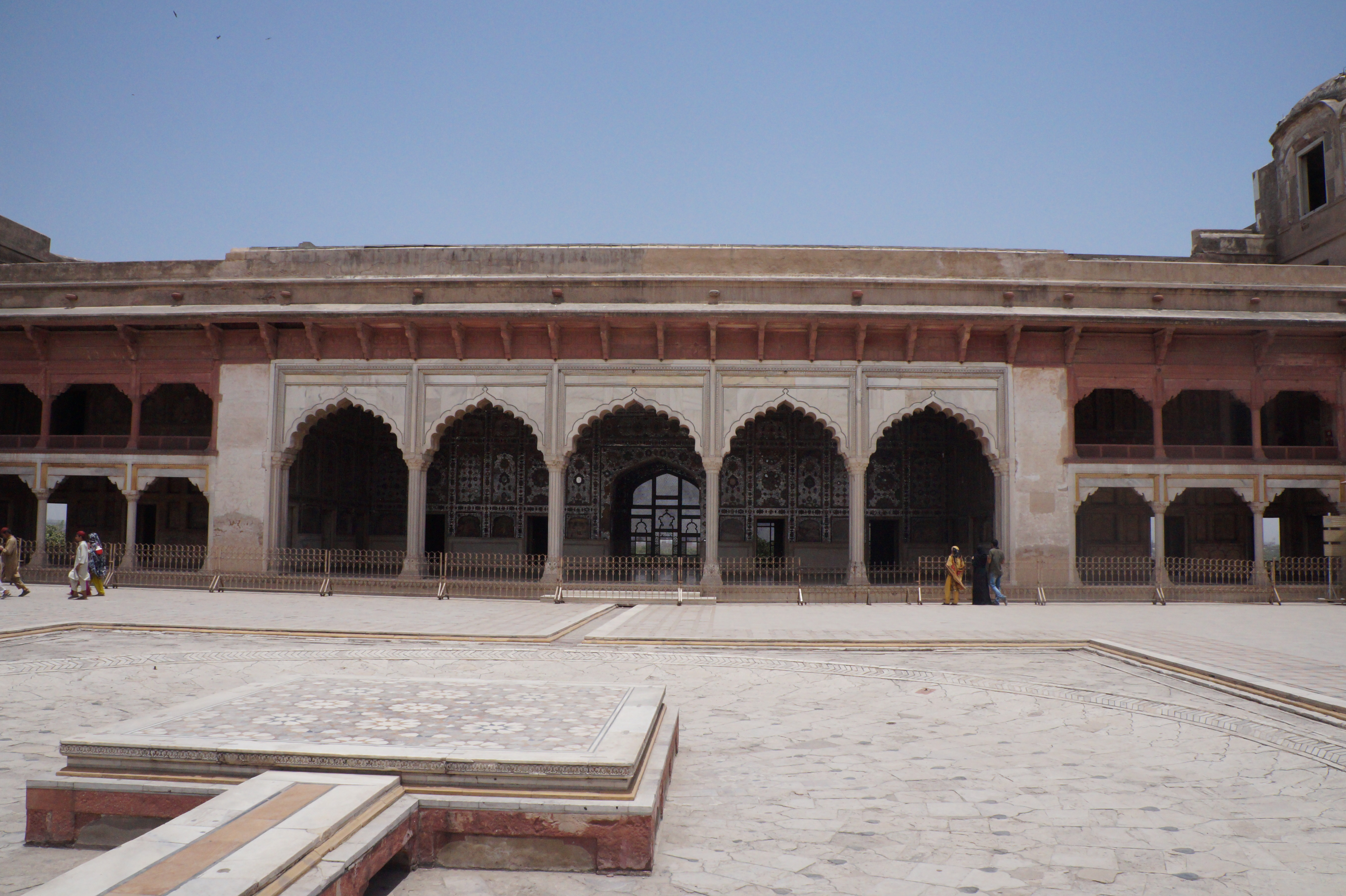 Lahore Fort complex (including Moti Masjid, Naulakha Pavilion, Sheesh Mahal and others) This is a photo of a monument in Pakistan identified as the PB-67